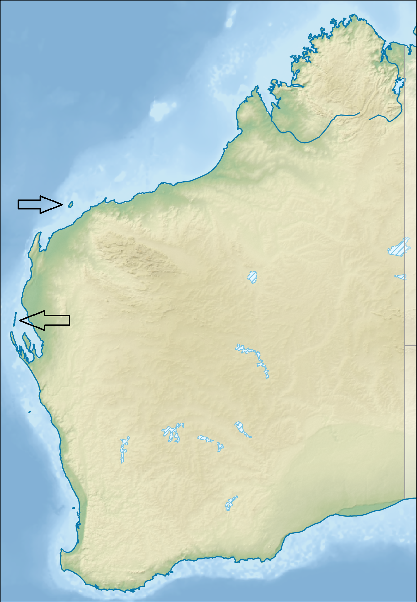 Distribution Bettongia lesueur